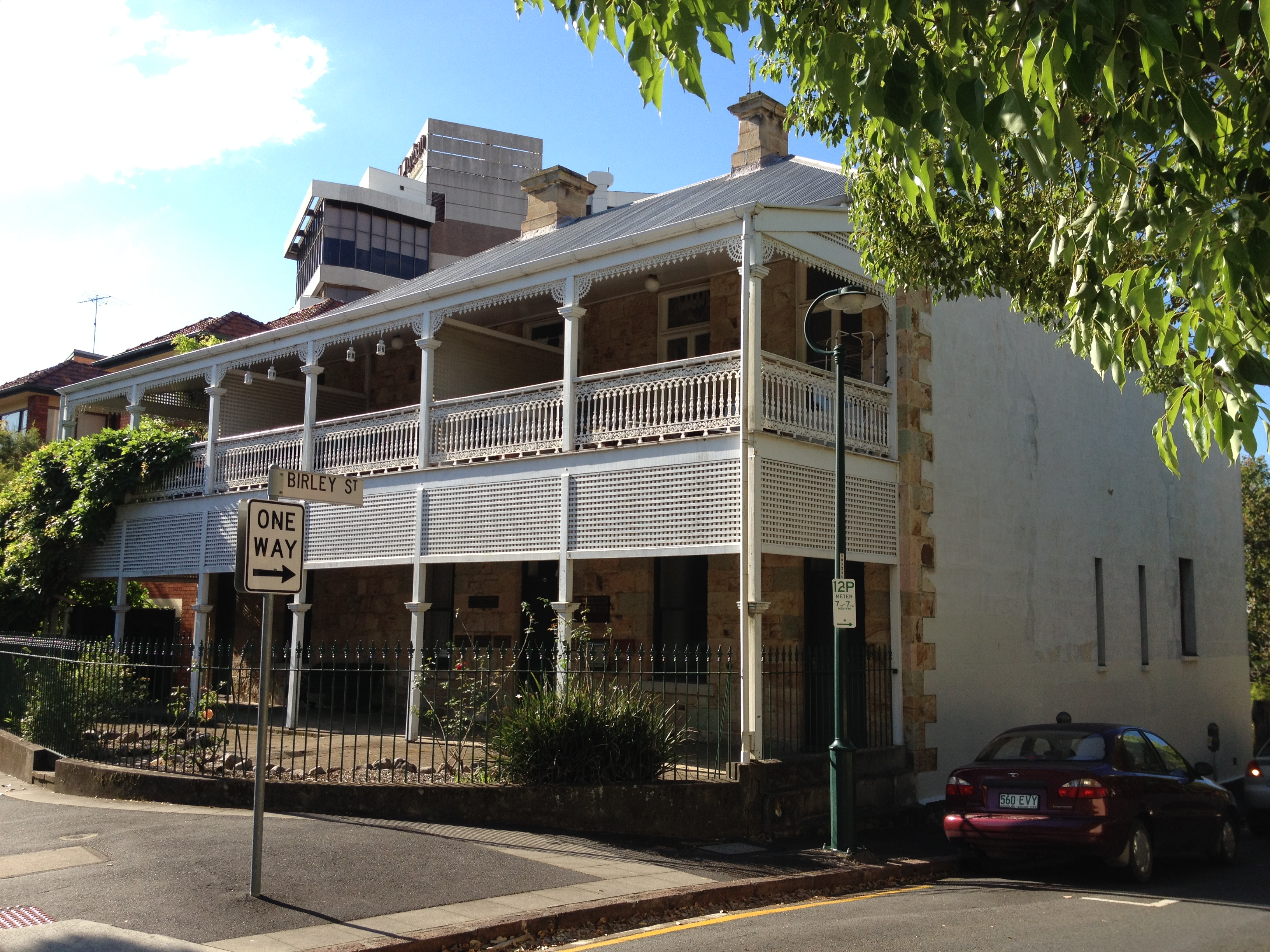 Athol Place 303 Wickham Terrace, Brisbane, QLD